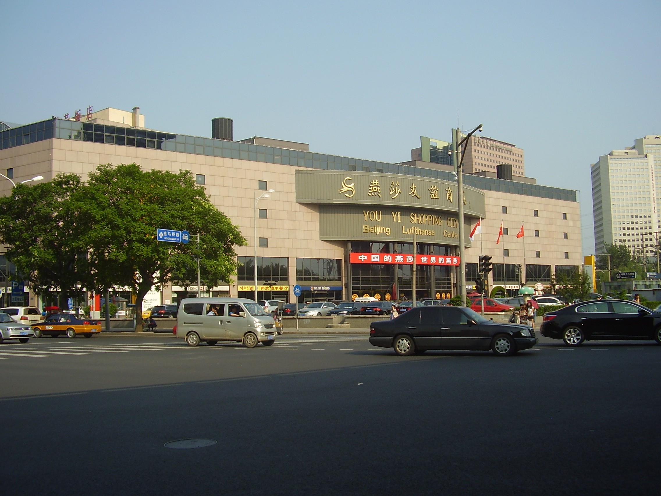 You Yi Shopping City (S: 燕莎友谊商城, T: 燕莎友誼商城, P: Yānshā Yǒuyì Shāngchéng), Beijing Lufthansa Center